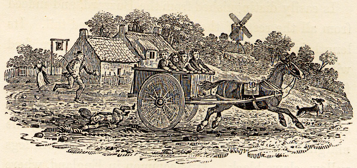 Woodcut by Thomas Bewick in History of British Birds 1797-1804: tail-piece to The Sparrowhawk.